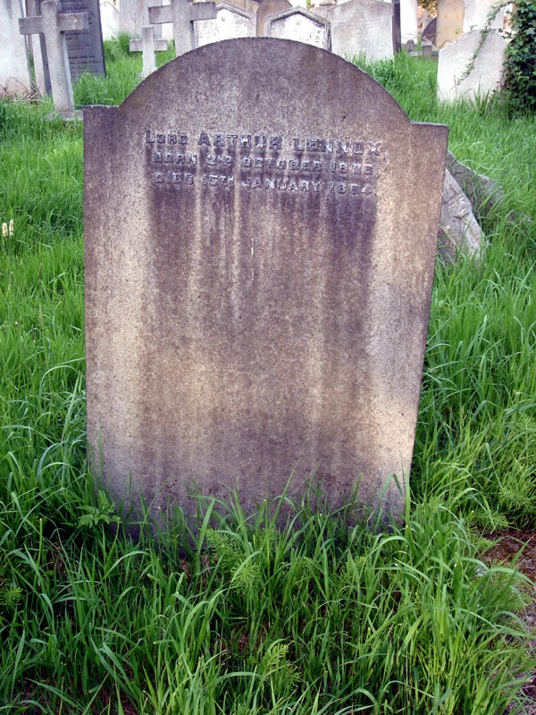 Arthur Lennox funerary monument, Brompton Cemetery, London